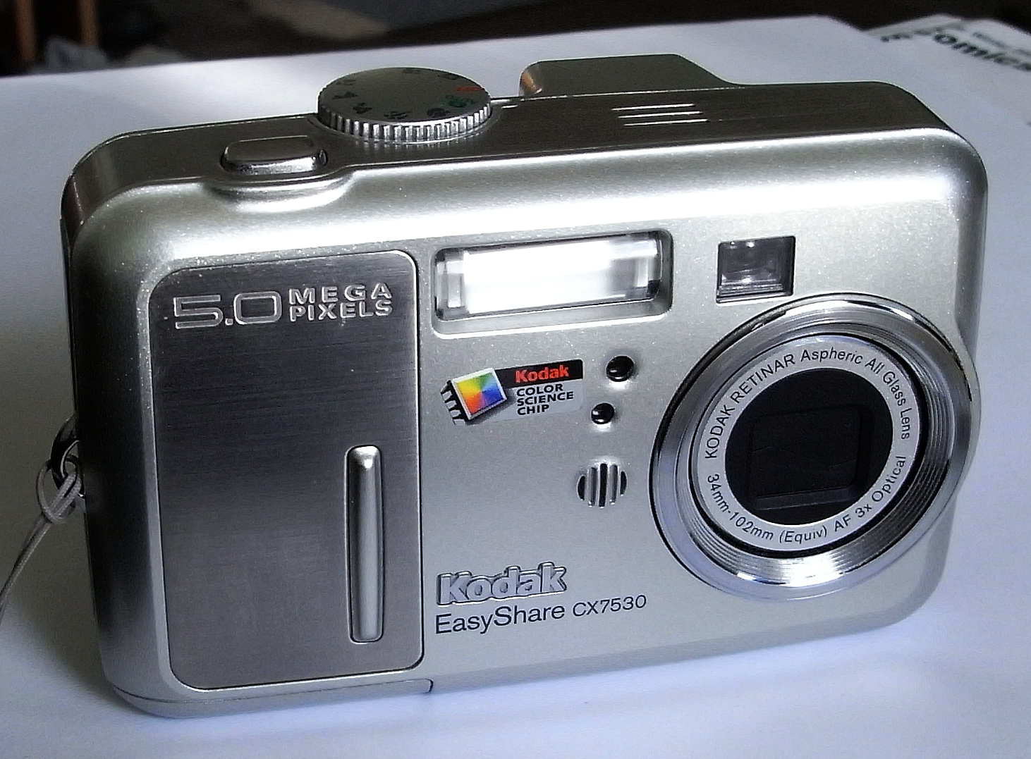 Kodak EasyShare camera